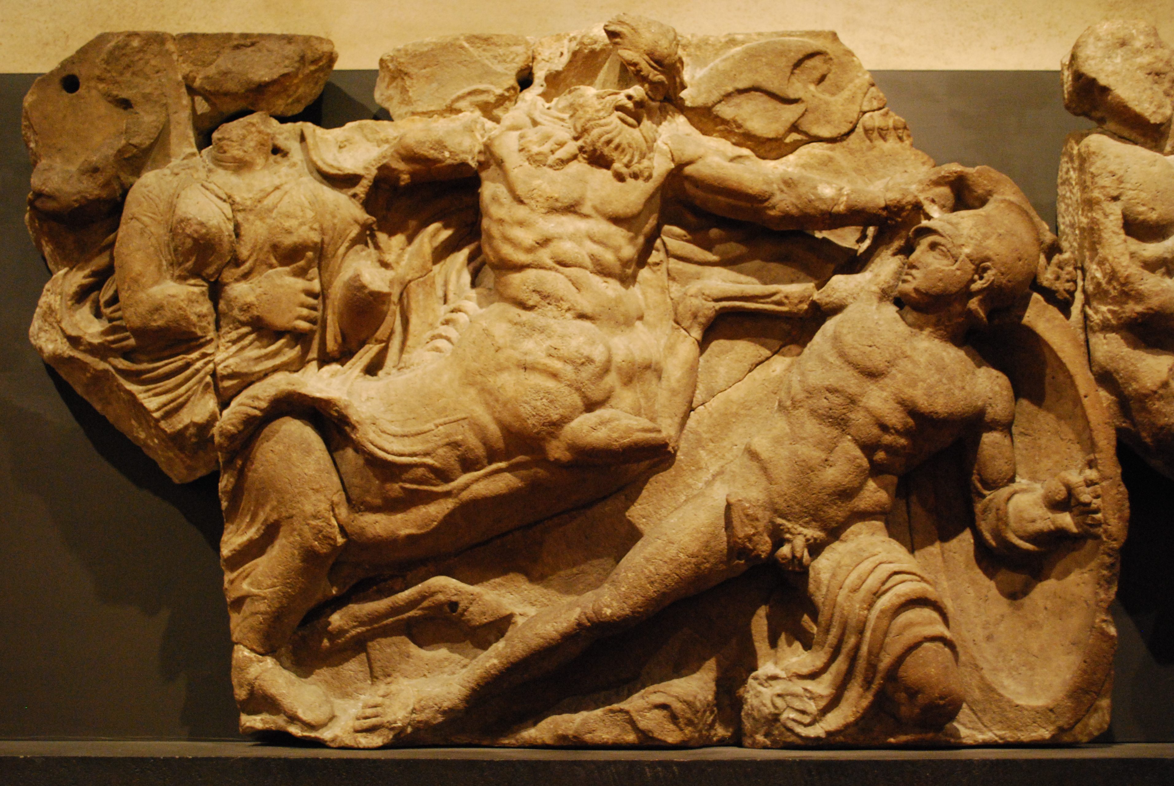 The Bassae Frieze is made from a set of 23 marble panels that were in the Temple of Apollo at Bassae. They were carved just before 400 B.C. The stones are on permanent display in a specially constructed room in Gallery 16 in the British Museum in London. Copies of this frieze decorated the walls of the Ashmolean Museum and London's Travellers Club. (Note the source numbers below show the order of the pictures)